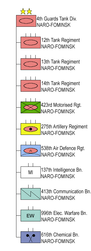 Russian Ground Forces; 4th Guards "Kantemirovskaya" Tank Division; Structure Graphic; made by msyself; noclador